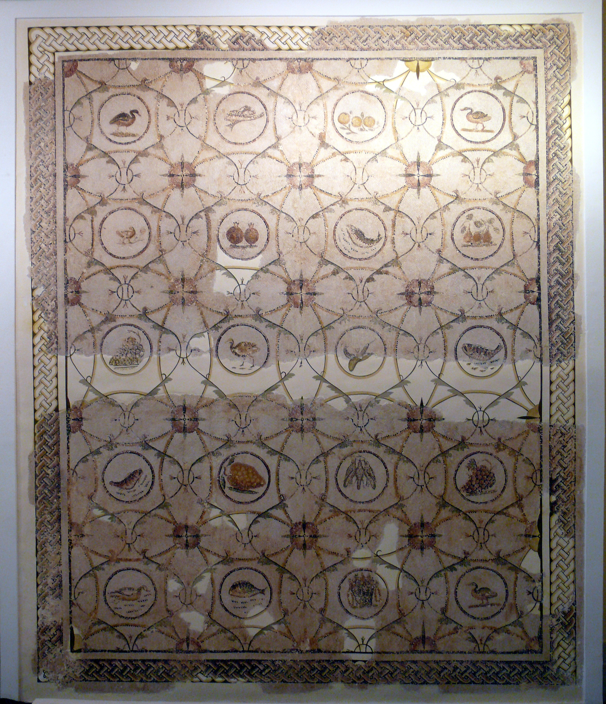 Composition of intersecting circeles and vegetal serpentines defining curved squares adorned with small medallions each bearing a xenia pattern (welcome gifts for guests): fish, game birds, poultry and fruit. First half third century Sousse Archeological Museum of Sousse